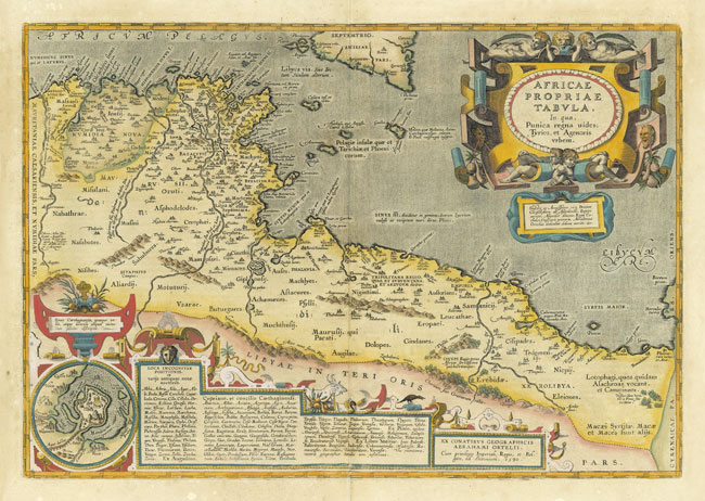 Map of Barbary Coast in 1590